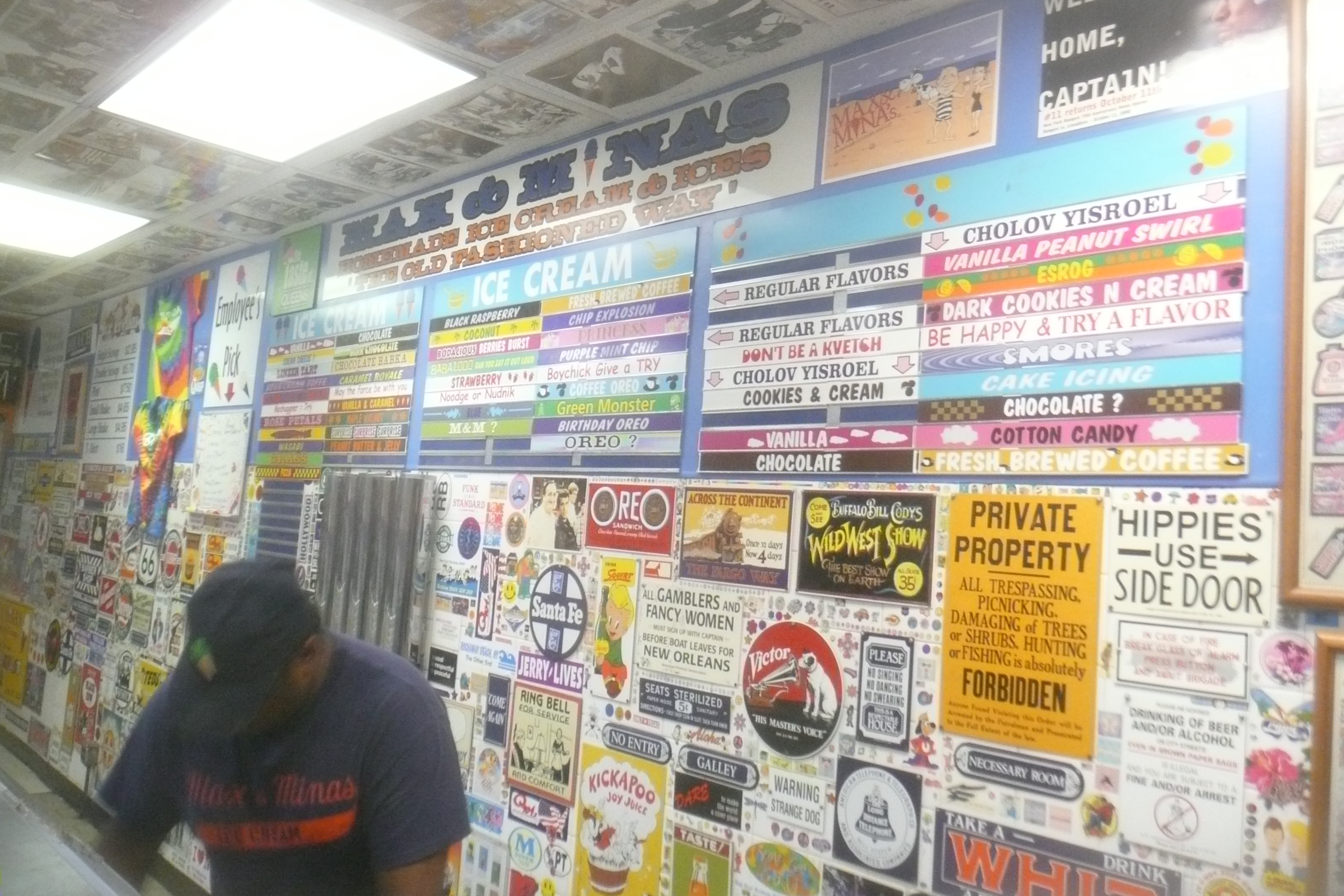 Photo of the inside of Max and Mina's in Flushing Queens, showcasing their many exotic ice cream flavors